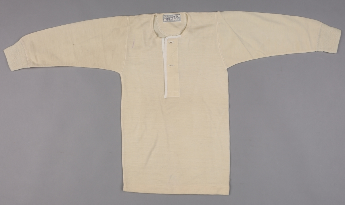 Long-sleeve Pedek wool underwear (sweater) produced at Petersen og Dekke Tricotagefabrik in Bergen, Norway. (Object no. NTMT.00779, The Norwegian Knitting Industry Museum).